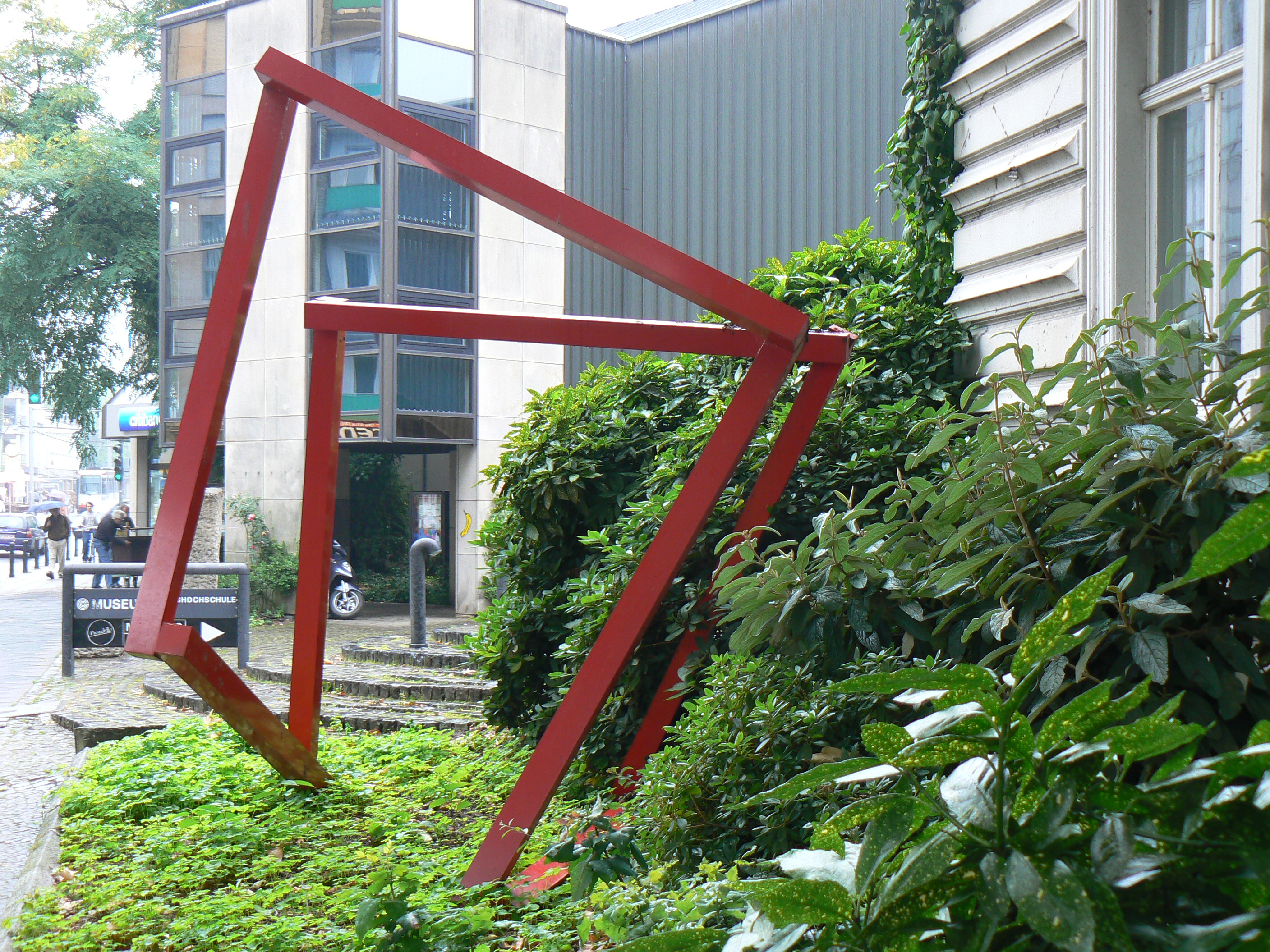 Elastic Cube (2000) by HD Schrader at the Art Museum of the City of Gelsenkirchen/Germany